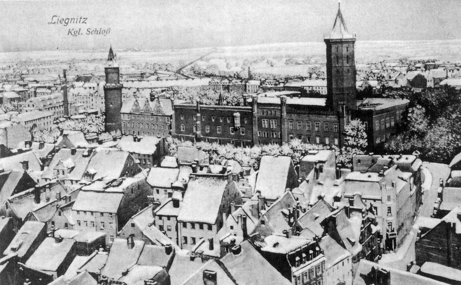 View of the castle in Legnica, 20th century